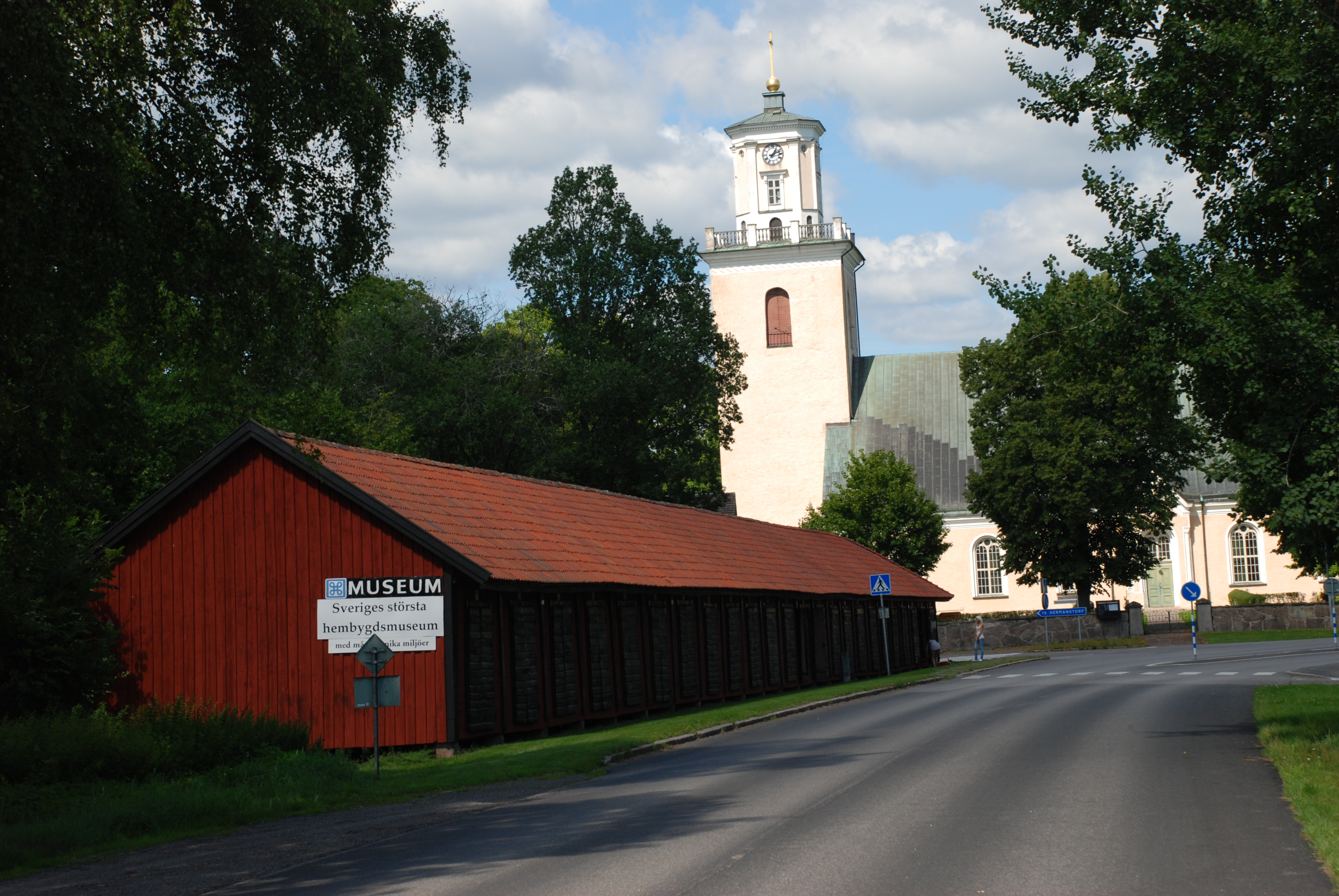 The church and the museum in the church stables of Madesjö